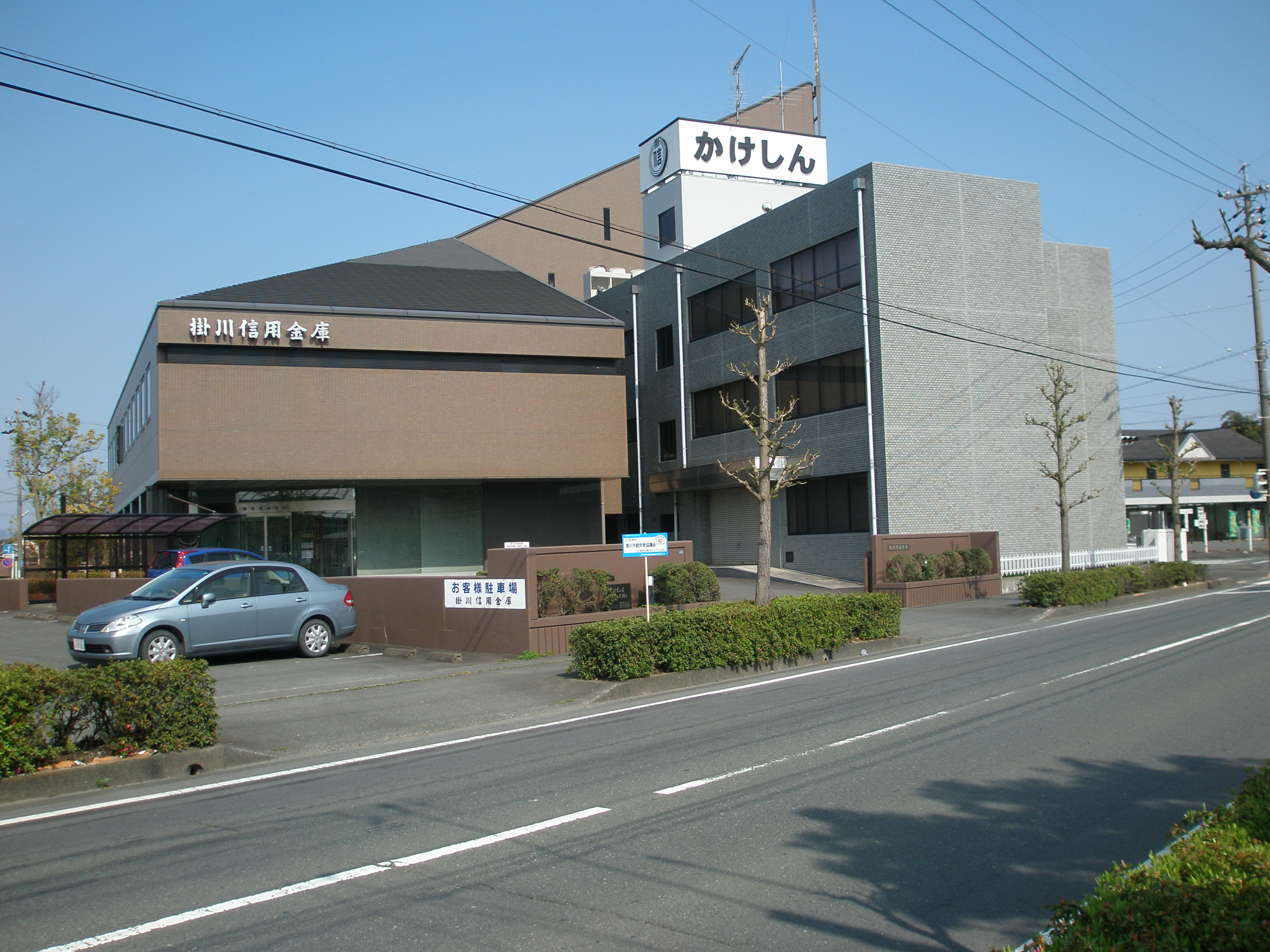 Shinkin bank Kakegawa shinkin Bank